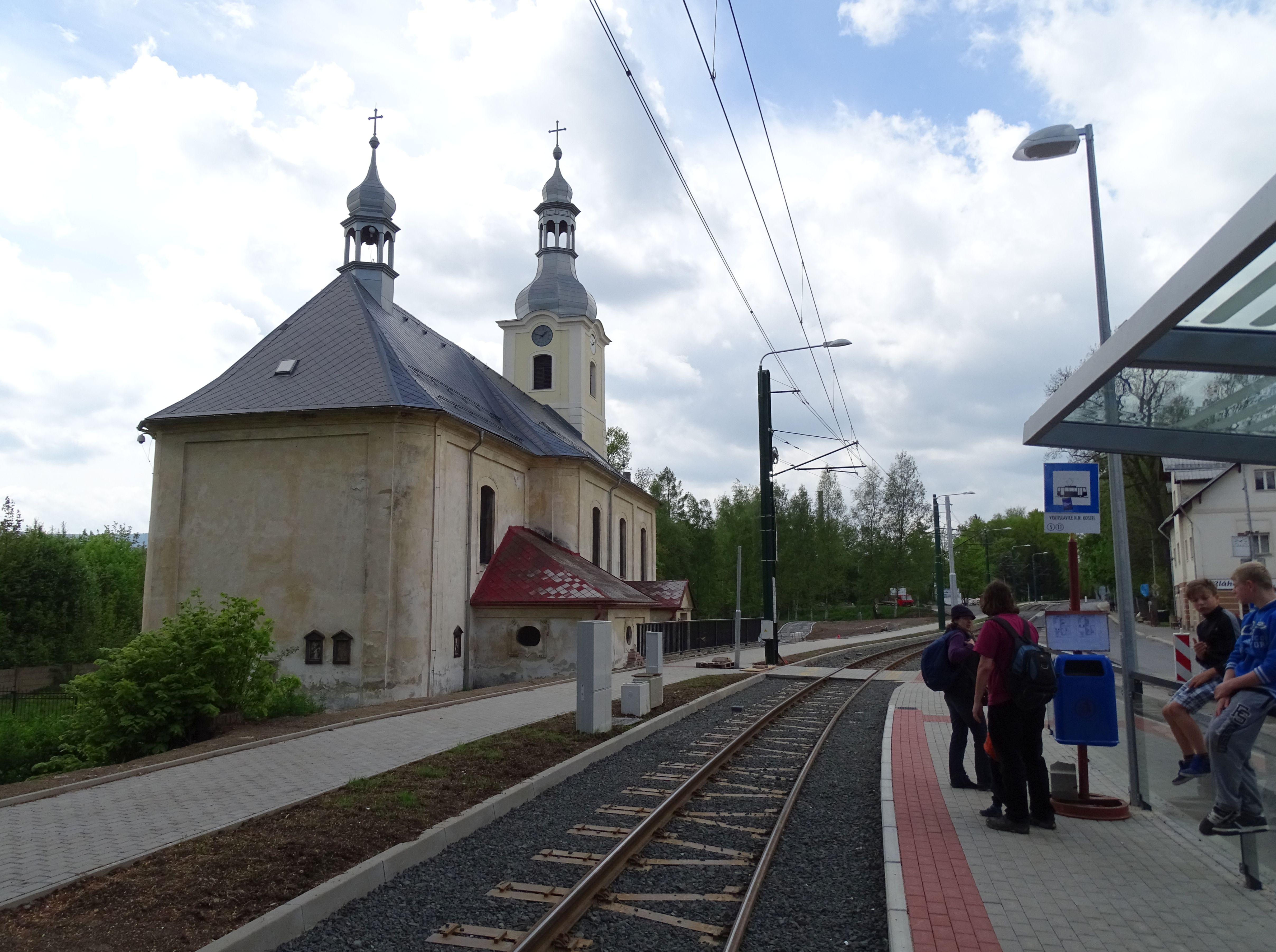 Liberec XXX-Vratislavice nad Nisou, Liberec District, Liberec Region, Czech Republic. Tanvaldská street, church of the Holy Trinity and a tram stop.